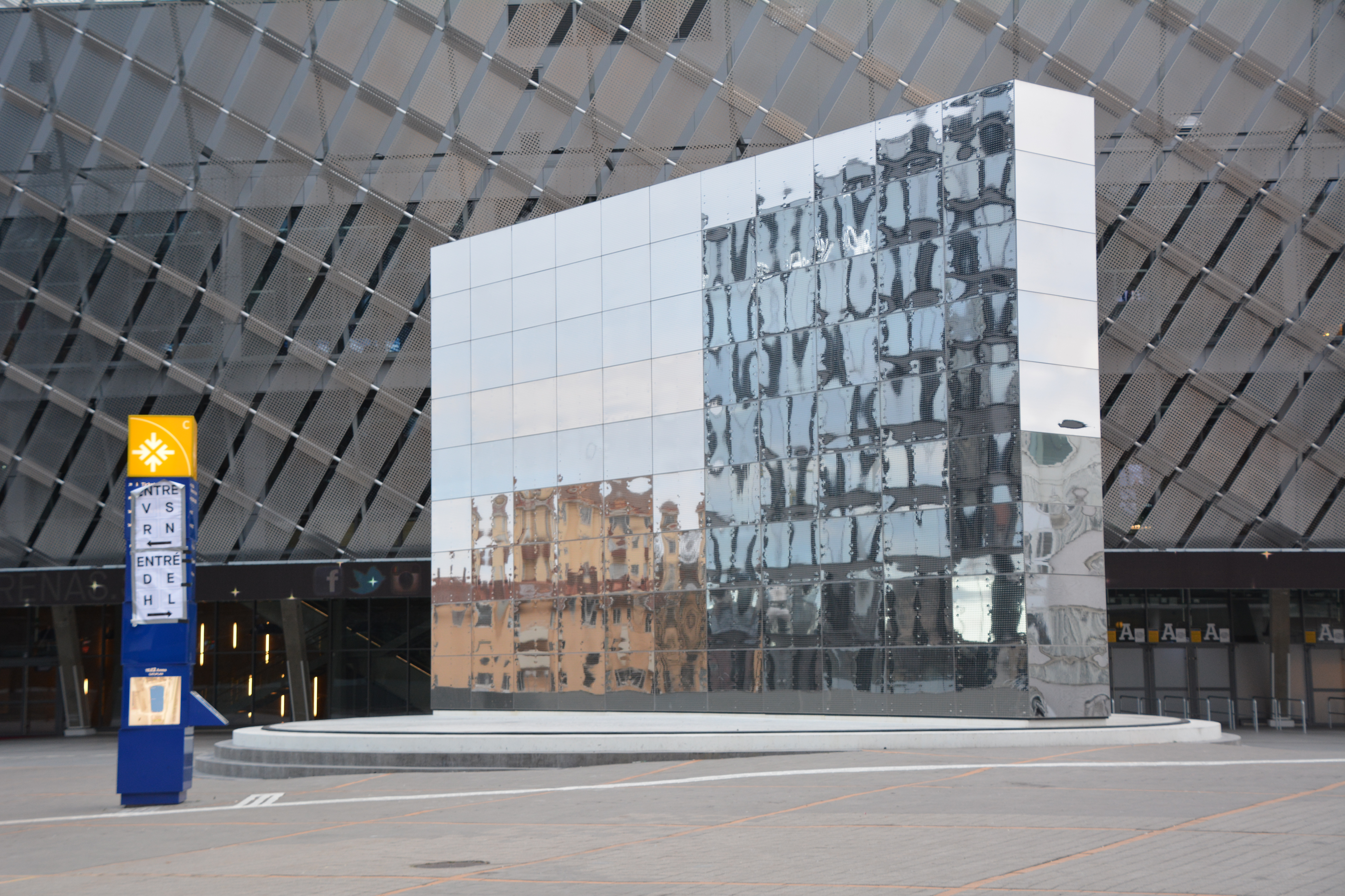 Mirror, by Jonas Dahlberg, Tele2 Arena, Stockholm